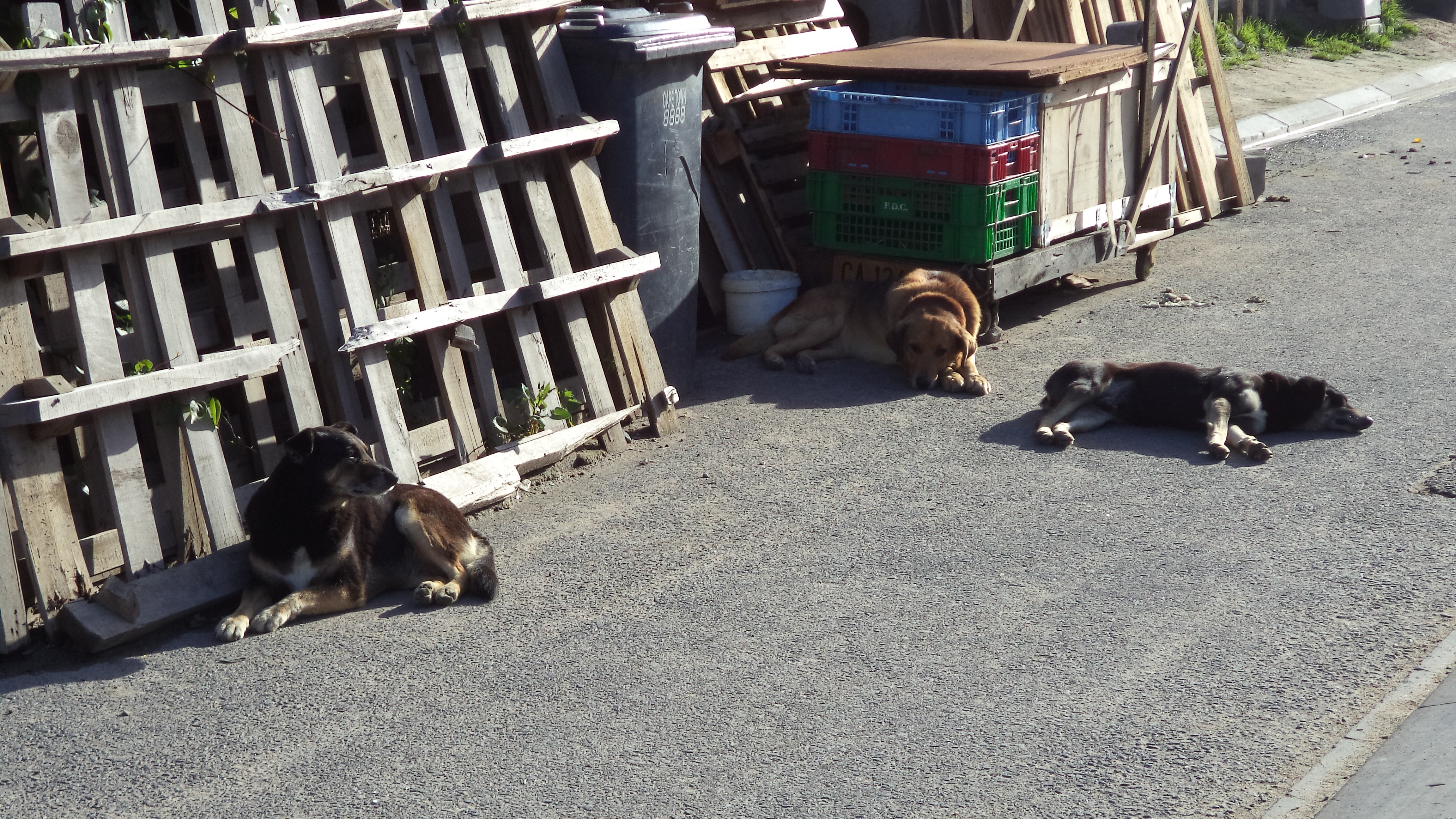 Let sleeping dogs lay, this is Joe Slovo Park being more domesticated.